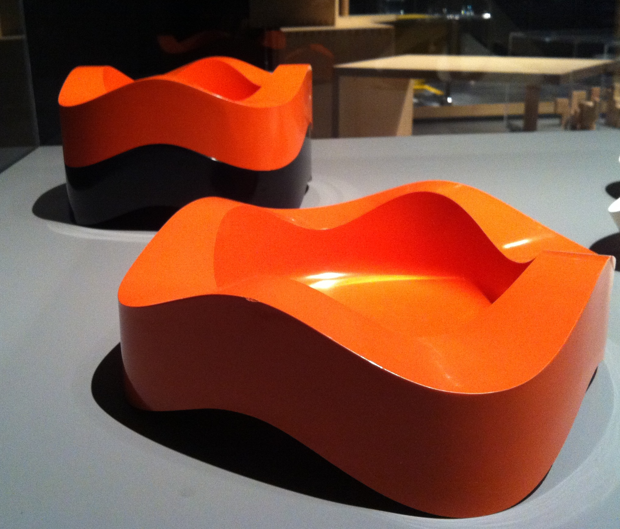 "Sinus" melamine ashtray. Systems design- The Ulm school. Exhibit at Disseny Hub Barcelona- DHUB HFG Walter Zeischegg- Ashtray- 1967